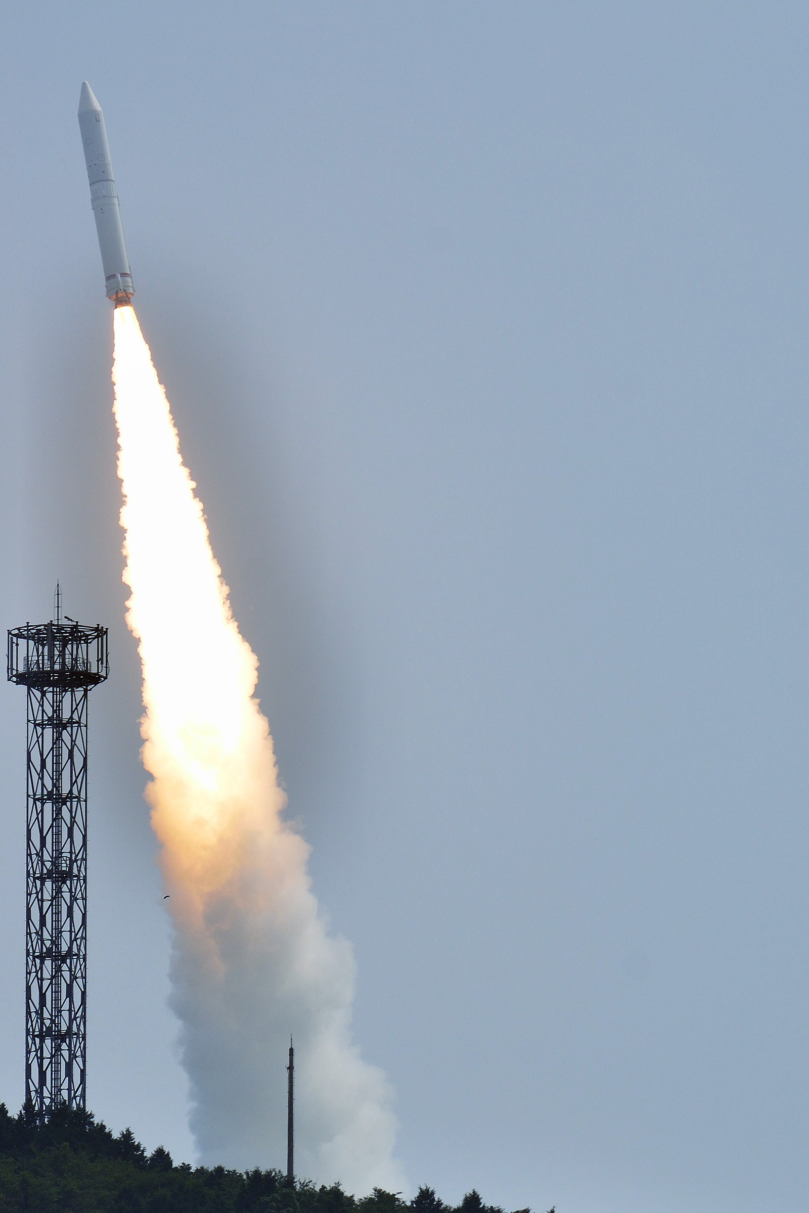 The first Epsilon Launch Vehicle (Epsilon-1), launching the Spectroscopic Planet Observatory for Recognition of Interaction of Atmosphere "HISAKI" (SPRINT-A).